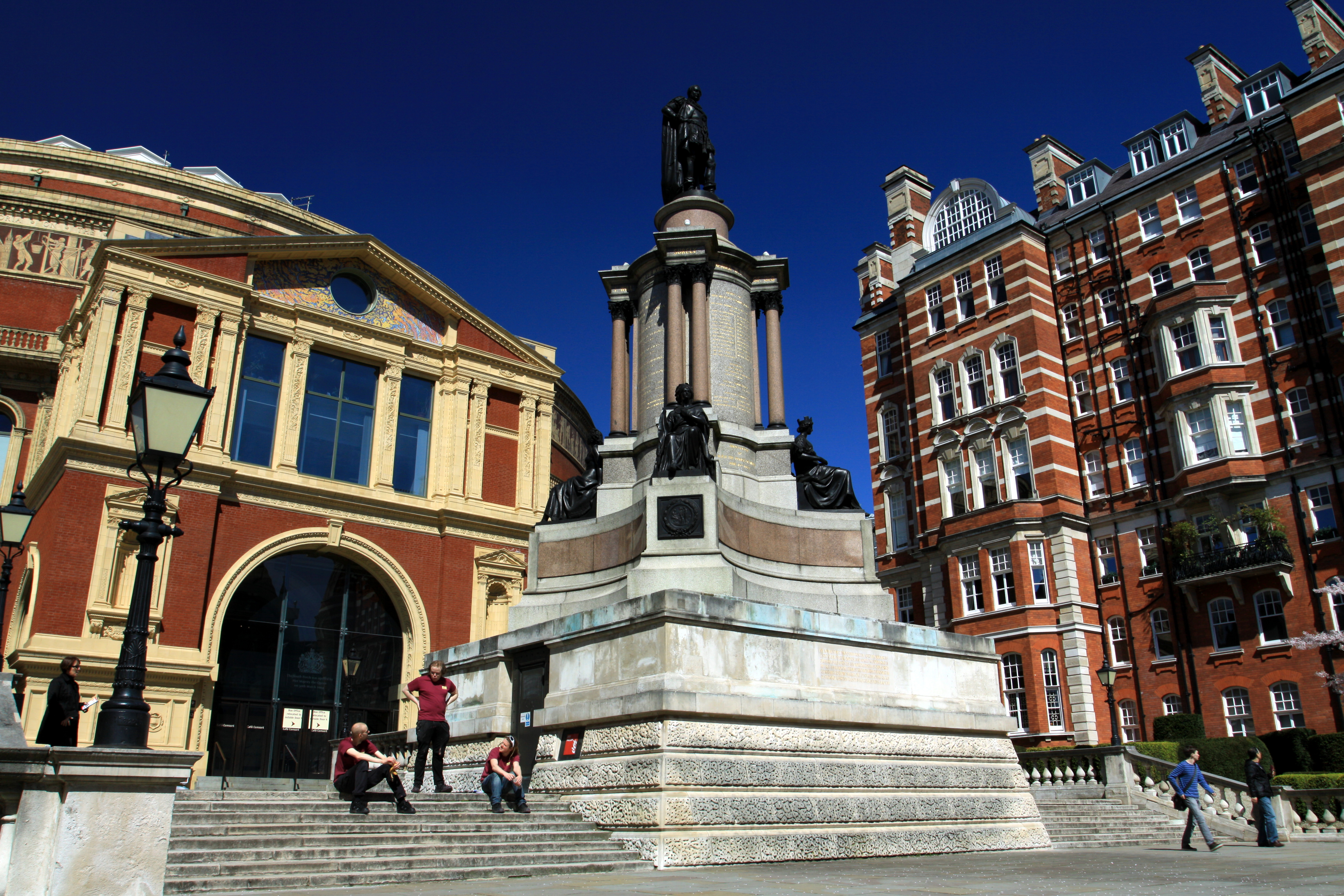 Memorial to the Great Exhibition in the Kensington Gore in the City of Westminster, London, Great Britain. The making of this file was supported by Wikimedia UK.